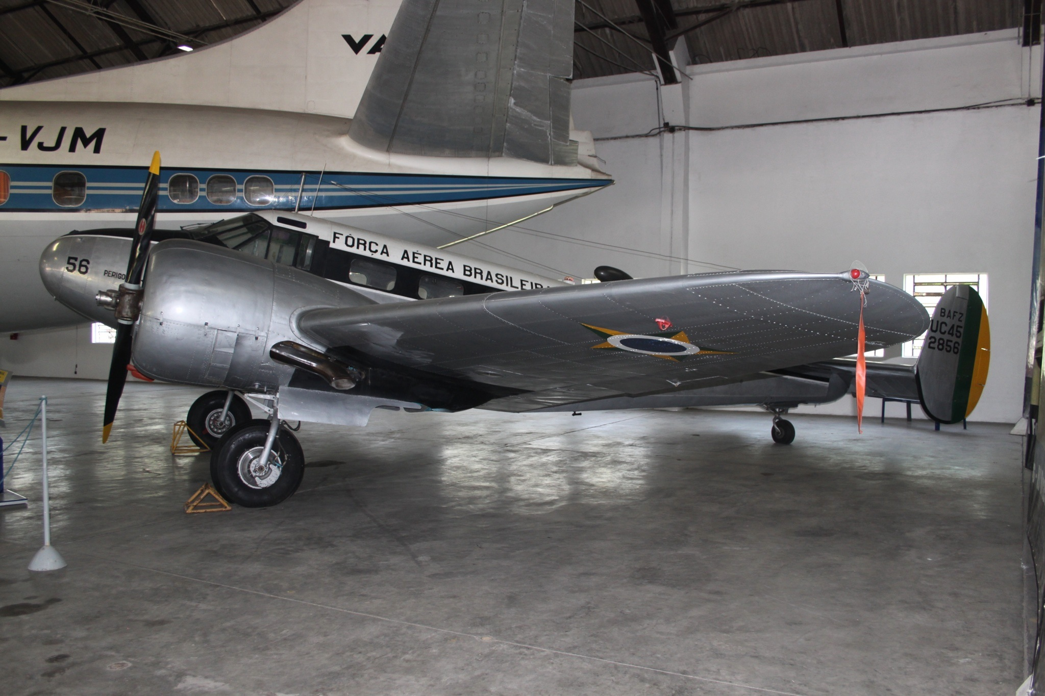 At Campo Dos Afonsos